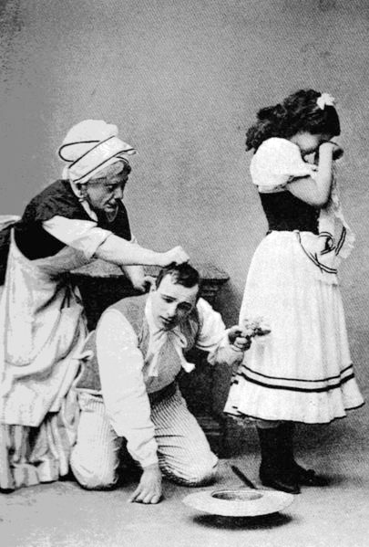 Grigory Riabtzev as the Widow Simone, Mikhail Mordkin as Colas, and Sofia Fedorova as Lise in Alexander Gorsky's production of La Fille Mal Gardée. Moscow, circa 1915. cf. 1.